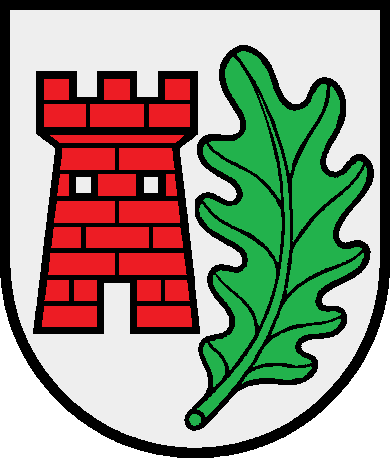 Coat of arms of the municipality Steinburg in Schleswig-Holstein, Germany.